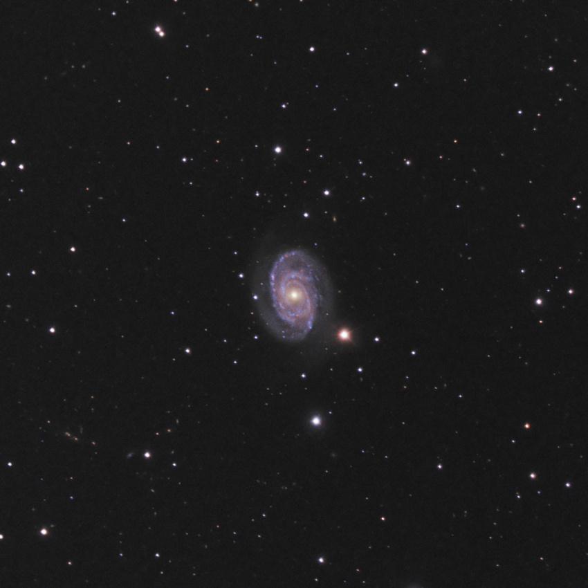 NGC 5371 (which also seems to be known as NGC 5390) is a symmetrical face-on Sbc barred spiral galaxy at a distance of 100 million light years in the constellation Canes Venatici. This galaxy with Hickson 68 makes up the Big Lick Galaxy Group.